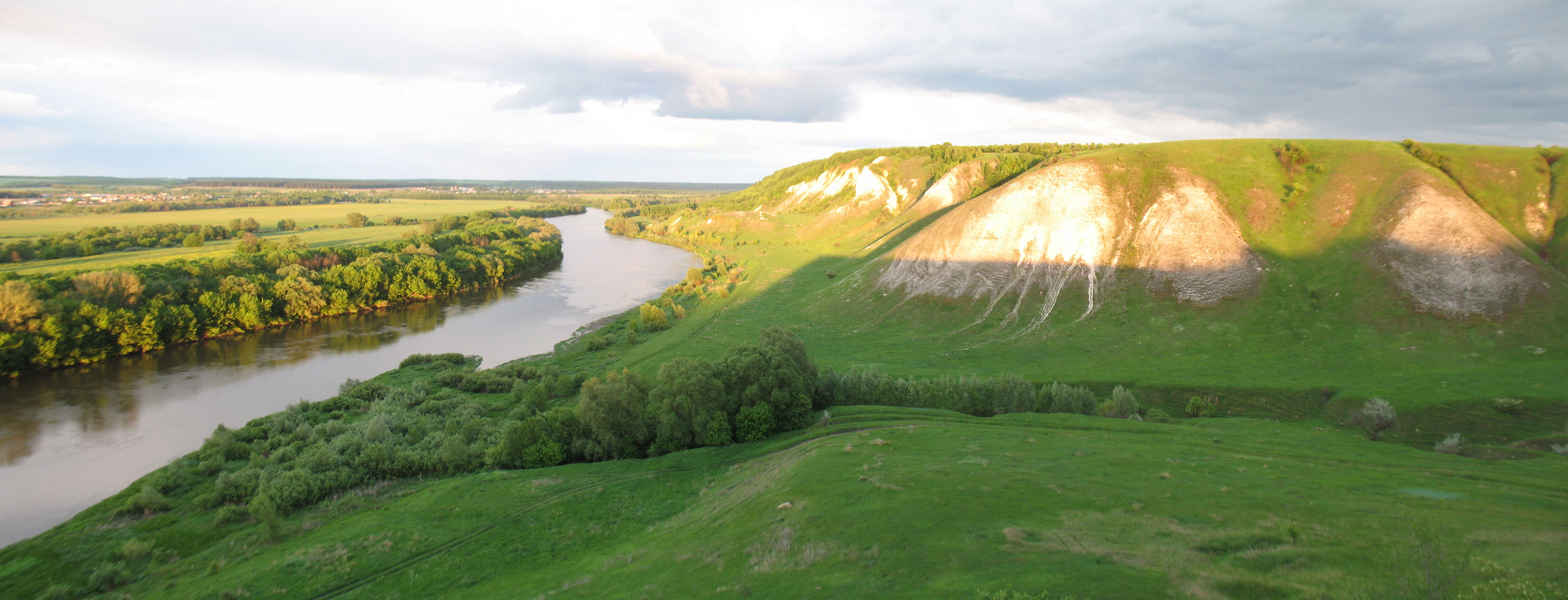 Don river at Storozhevoe (Ostrogozhsky raion, Voronezhskaya oblast', Russia) 24.05.2009